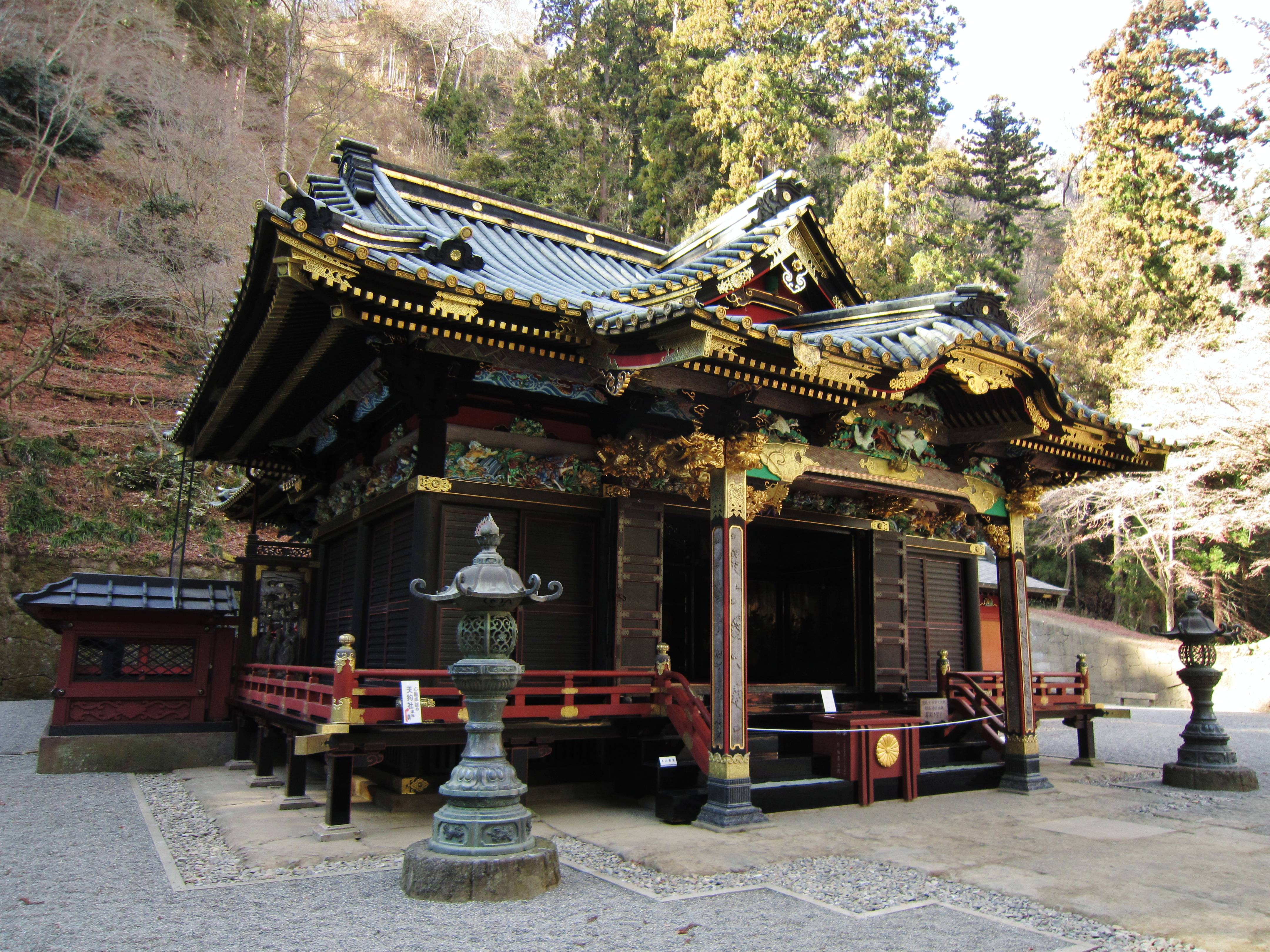 Myogi-jinja Haiden, Heiden, Honden.